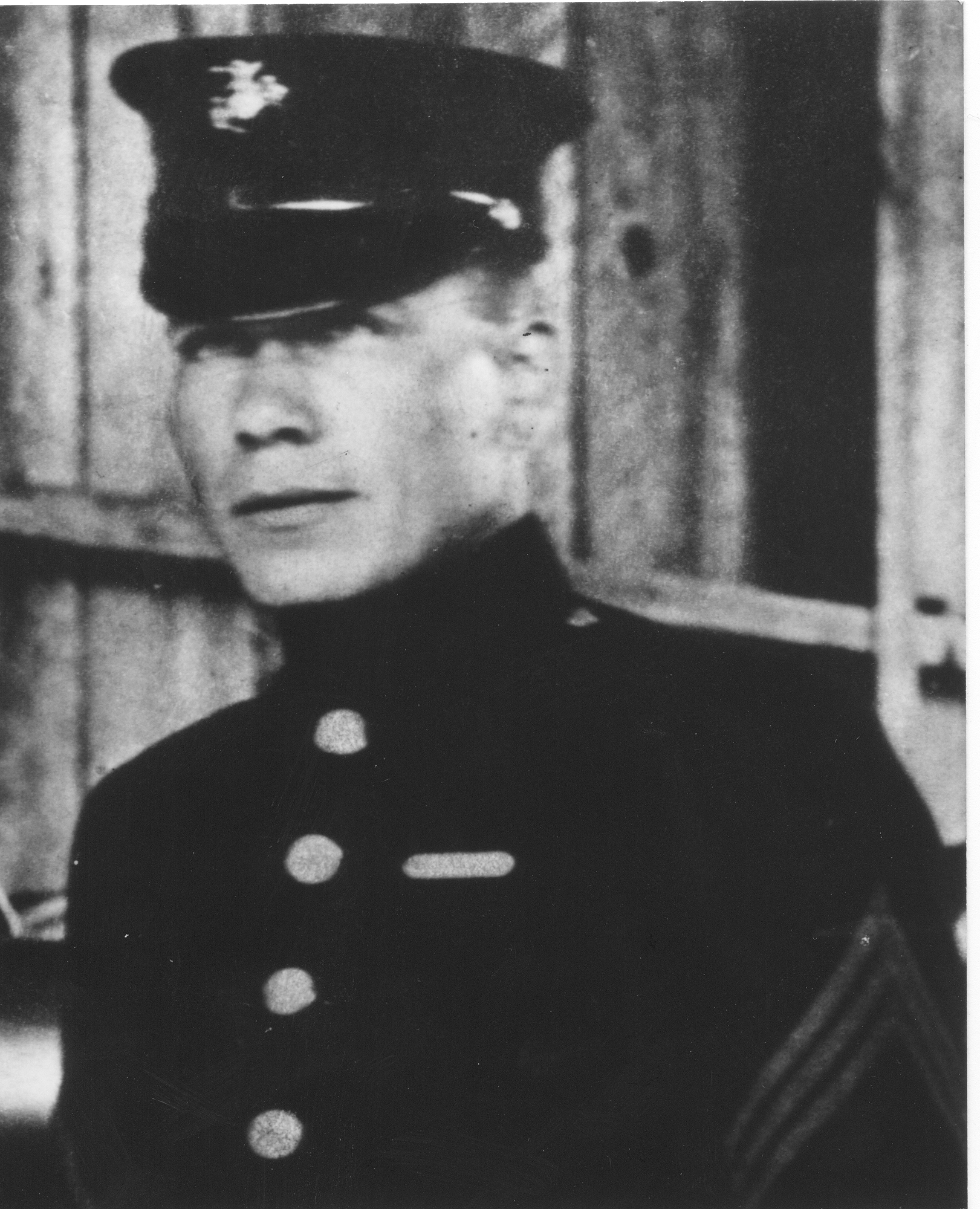 Joseph A. Glowin, USMC, Medal of Honor recipient for actions in 1916